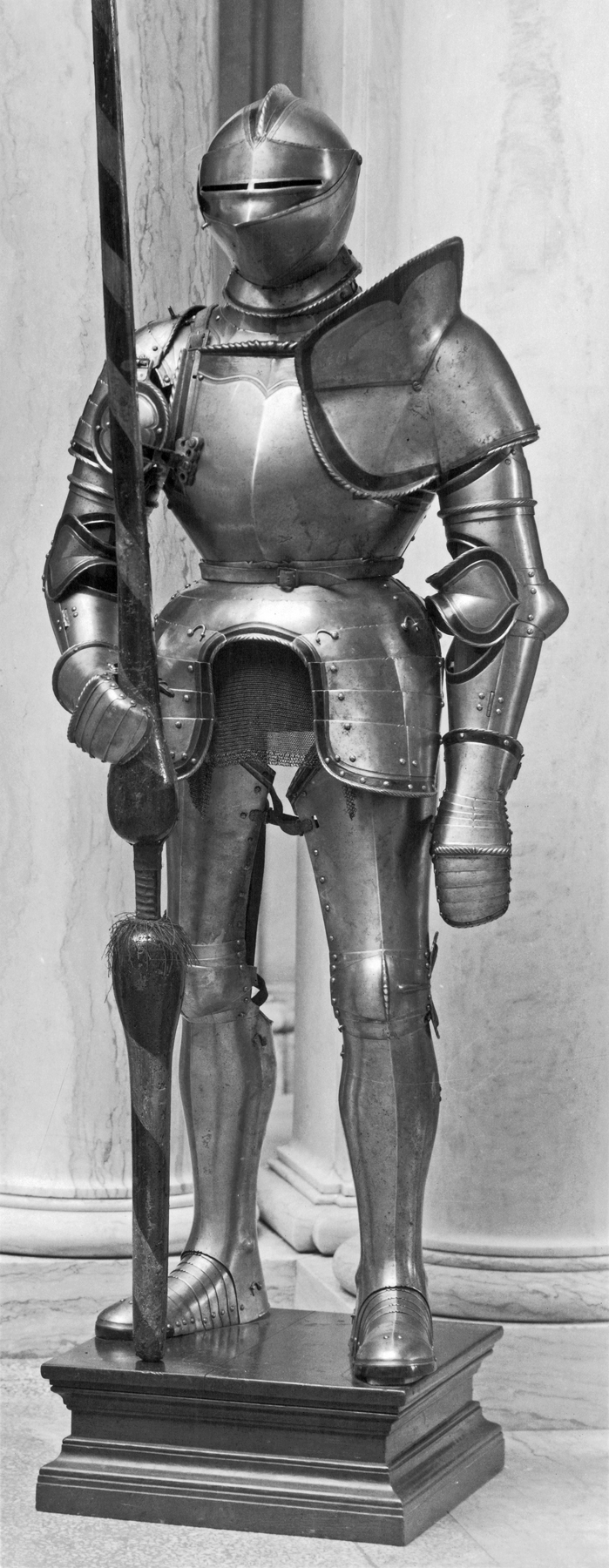 The heavily armored knight of noble birth, wielding a 12' lance and mounted on a sturdy war-horse, was the dominant force on the medieval battlefield from the 9th to the mid 14th century, when improved weapons and training made the infantry his equal. However, mounted, armored nobles continued to find an outlet for their war-like energies in jousting tournaments. This suit of armor is made of parts that are characteristic of the mid 16th century in Germany, but are not by the same maker. Typical are the black painted trim and the rope-like edging seen, for example, around the couters (elbow protectors) and along the top of the breastplate. Note the lance rest below the right shoulder. The close-helmet provides full-face protection and has a movable visor which could be lifted to demonstrate good will or when there was no danger. Many of the names for parts of the armor come from French words for the body parts that they protect, as cuisse (thigh), gorget (throat), or gauntlet (hand). The lance, Walters 51.1336, is on view in the museum with a different suit of armor, Walters 51.581.